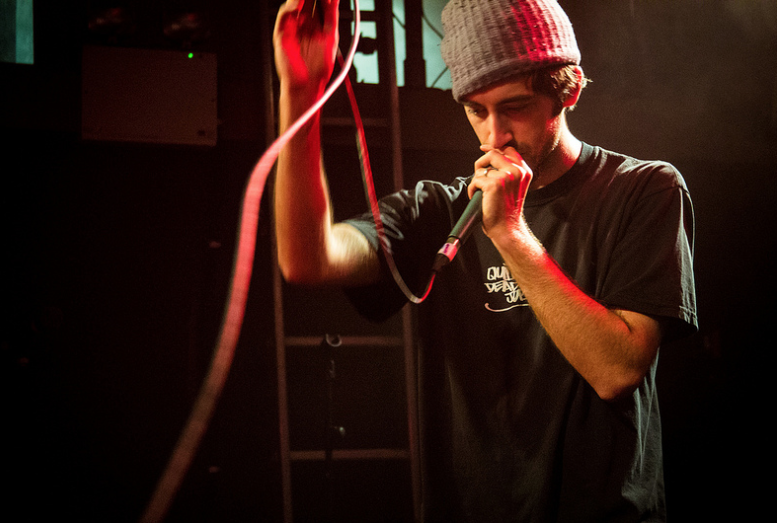 Prolyphic rapper performing in 2010.